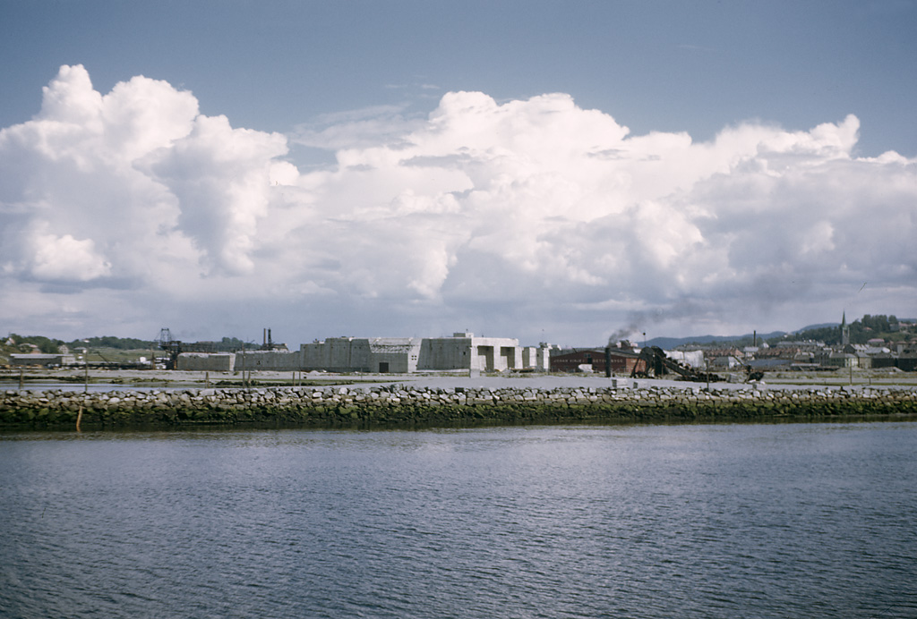 U-boat bunker "Dora 1" from World War II in Trondheim in Norway. U-båtsbunker "Dora 1" från andra världskriget i Trondheim i Norge. Location: Trondheim, Sør-Trøndelag fylke (county), Norway Photograph by: Fredrik Bruno Date: 15.07.1948 Format: Colour slide Persistent URL: Read more about the photo database (in english)